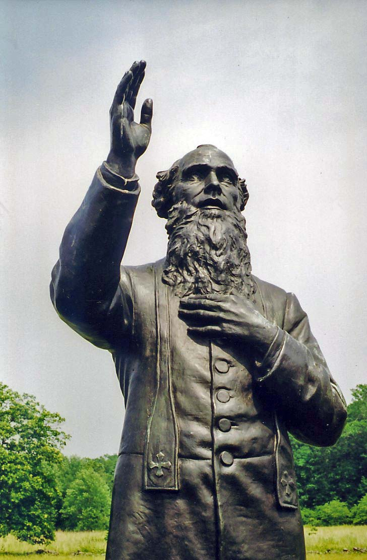 Statue of Father William Corby at Gettysburg battlefield by Samuel Murray